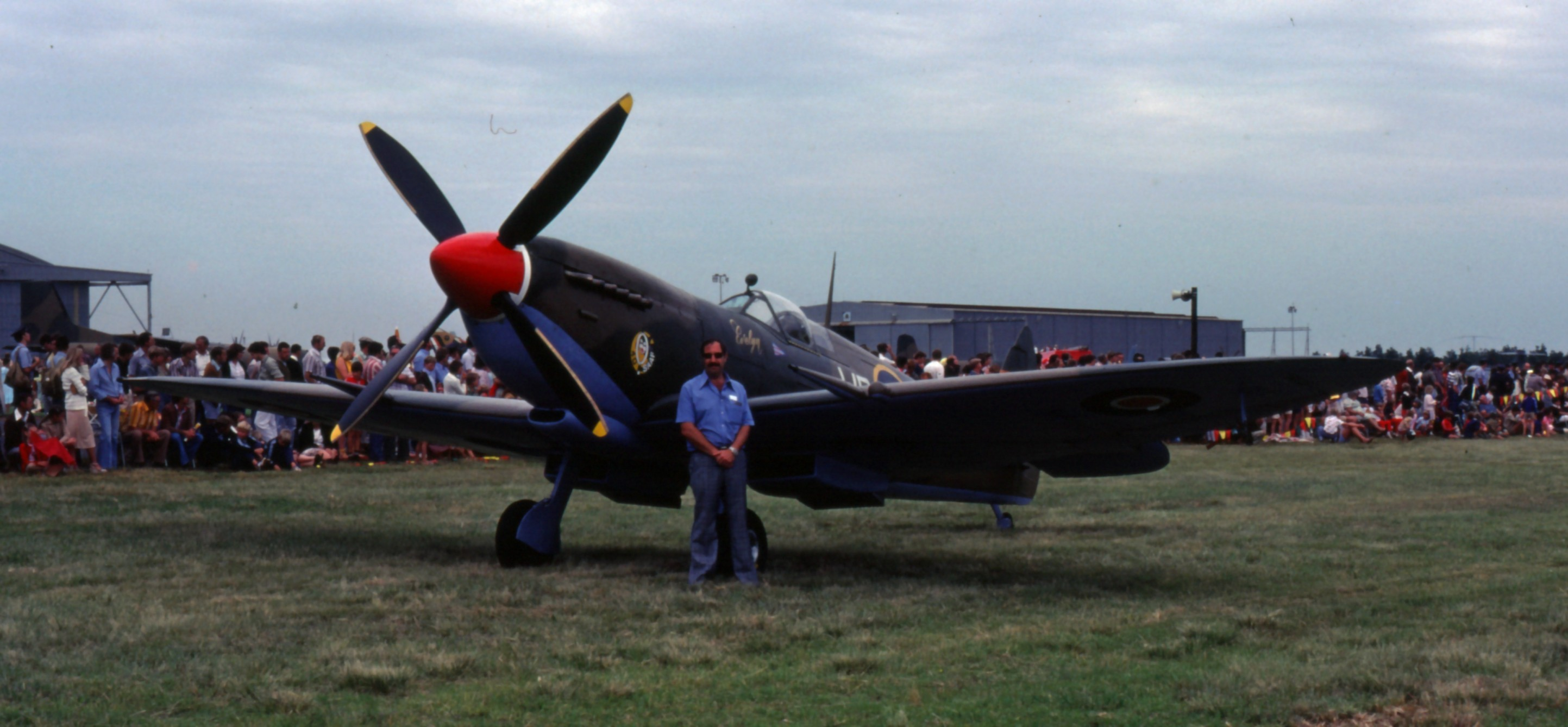 Spitfire Mk.IX no. PT672 at AFB Waterkloof, with Major Alan Lurie